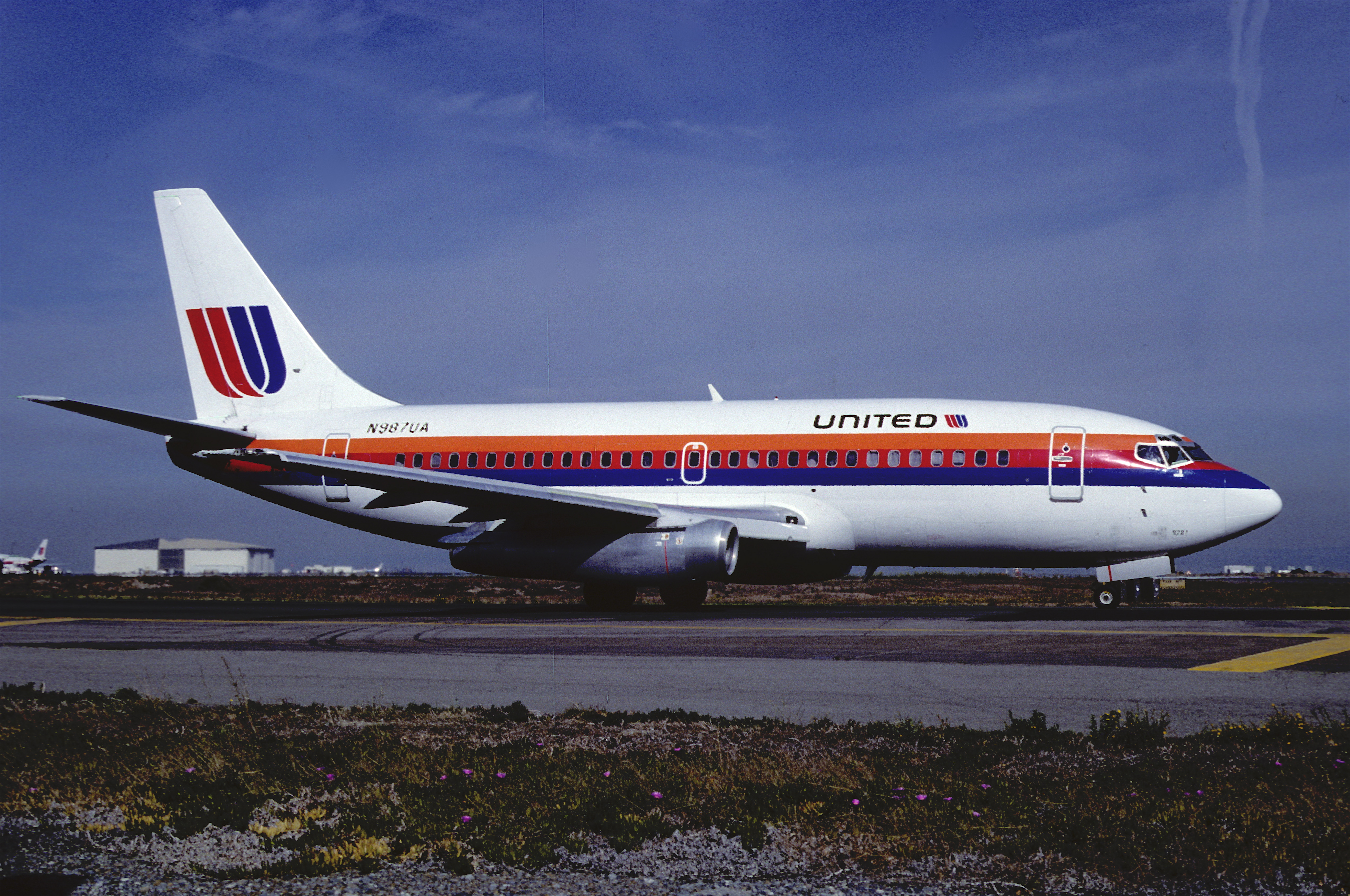 United Airlines Boeing 737-291; N987UA, November 1988/ CBY